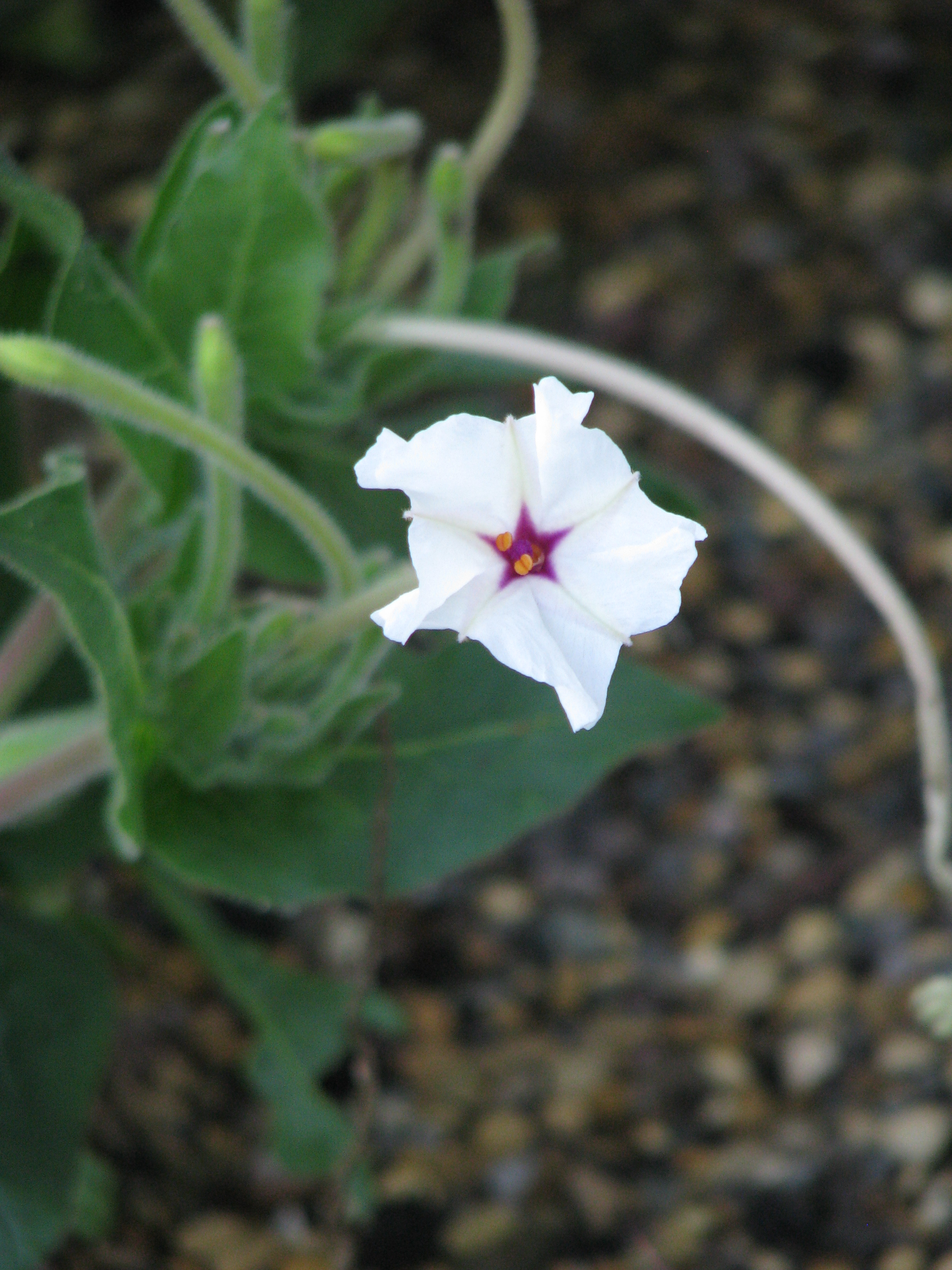 Mirabilis longiflora